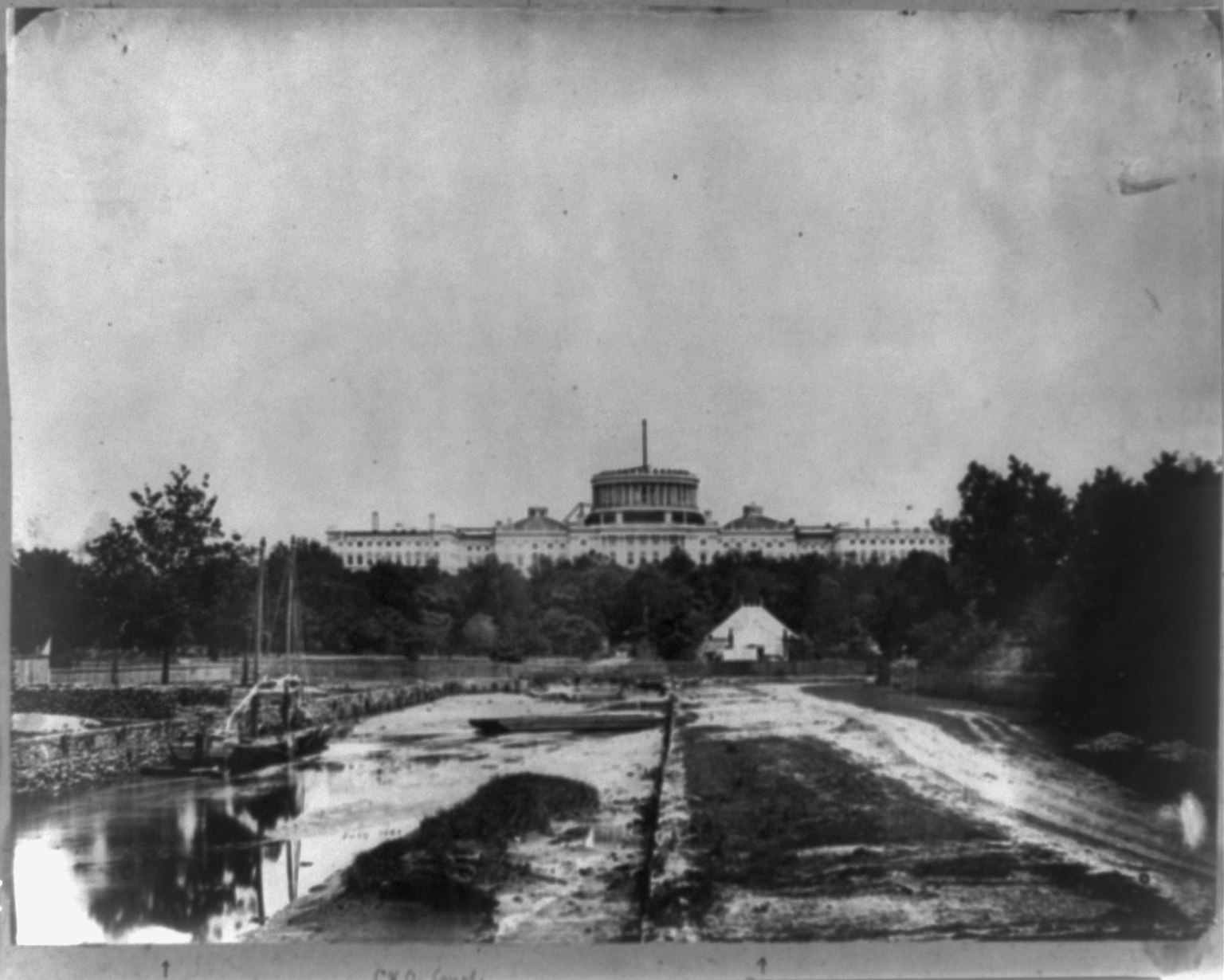 Title: West front of Capitol, vii, peristyle complete Abstract/medium: 1 photographic print : salted paper ; 23 x 29 cm.